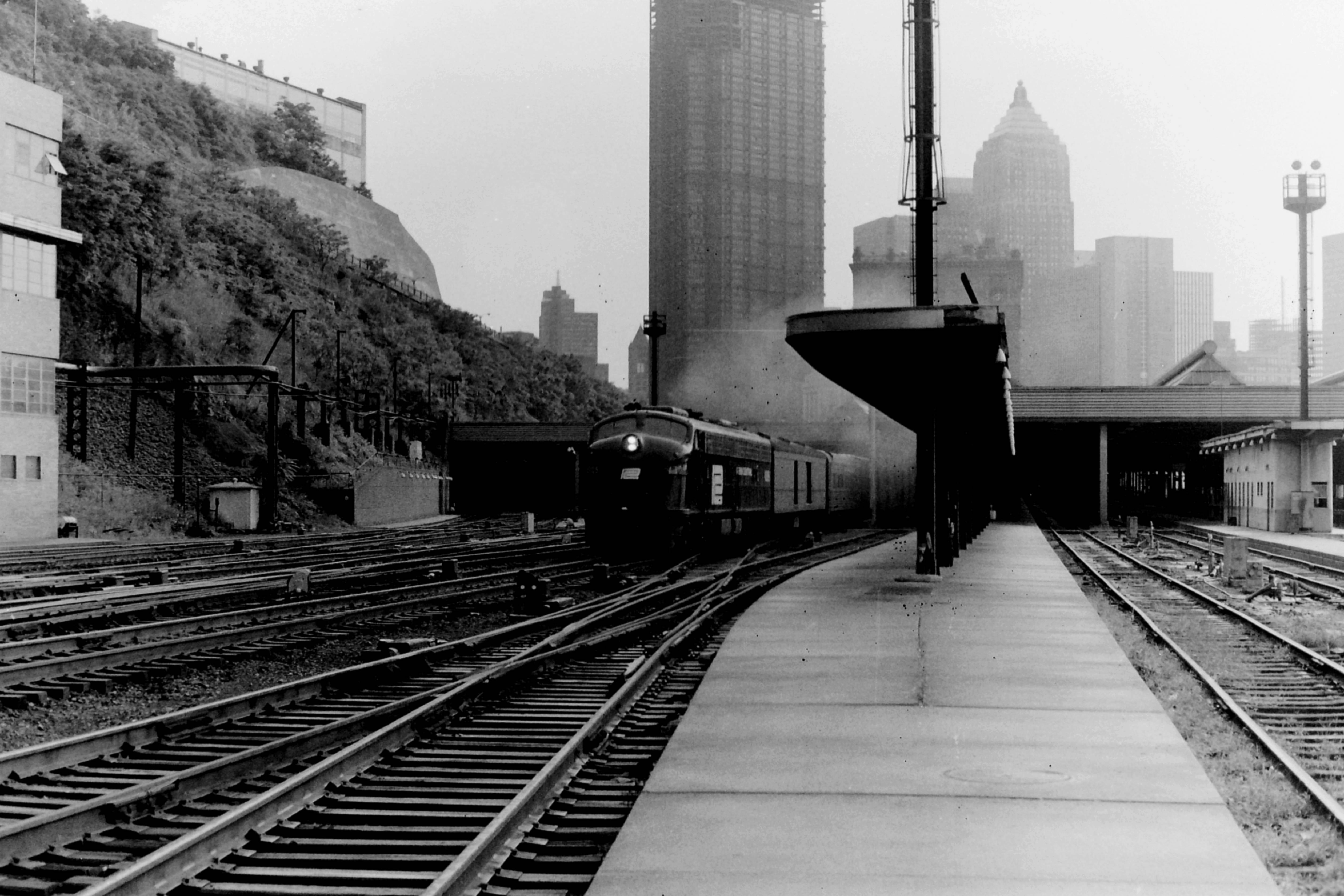 Penn Central E.M.D. "E-8" 2,250 hp A1A-A1A No.4296 departs Penn Central Station, Pittsburgh, 7/70 with the "Spirit of St Louis" St-Louis-Cincinnati-Pittsburgh-Philadelphia-Washington express consisting of a mere 4 cars - a shadow of it's former prestigious self.